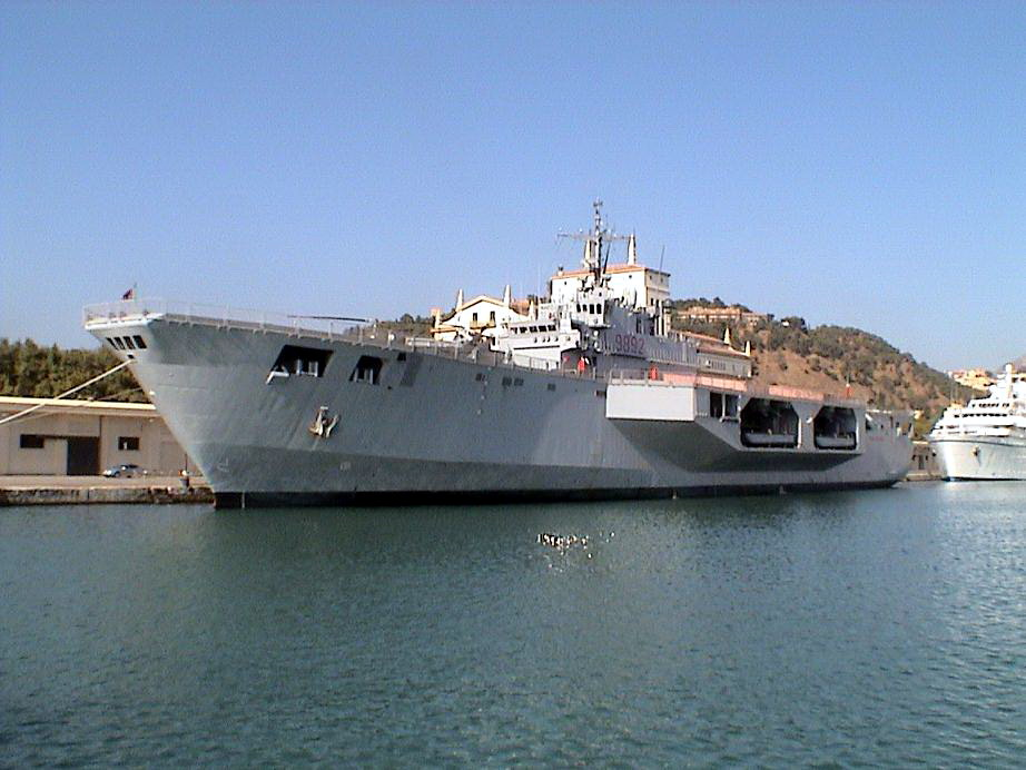 Italian amphibious ship San Giorgio in the port of Malaga